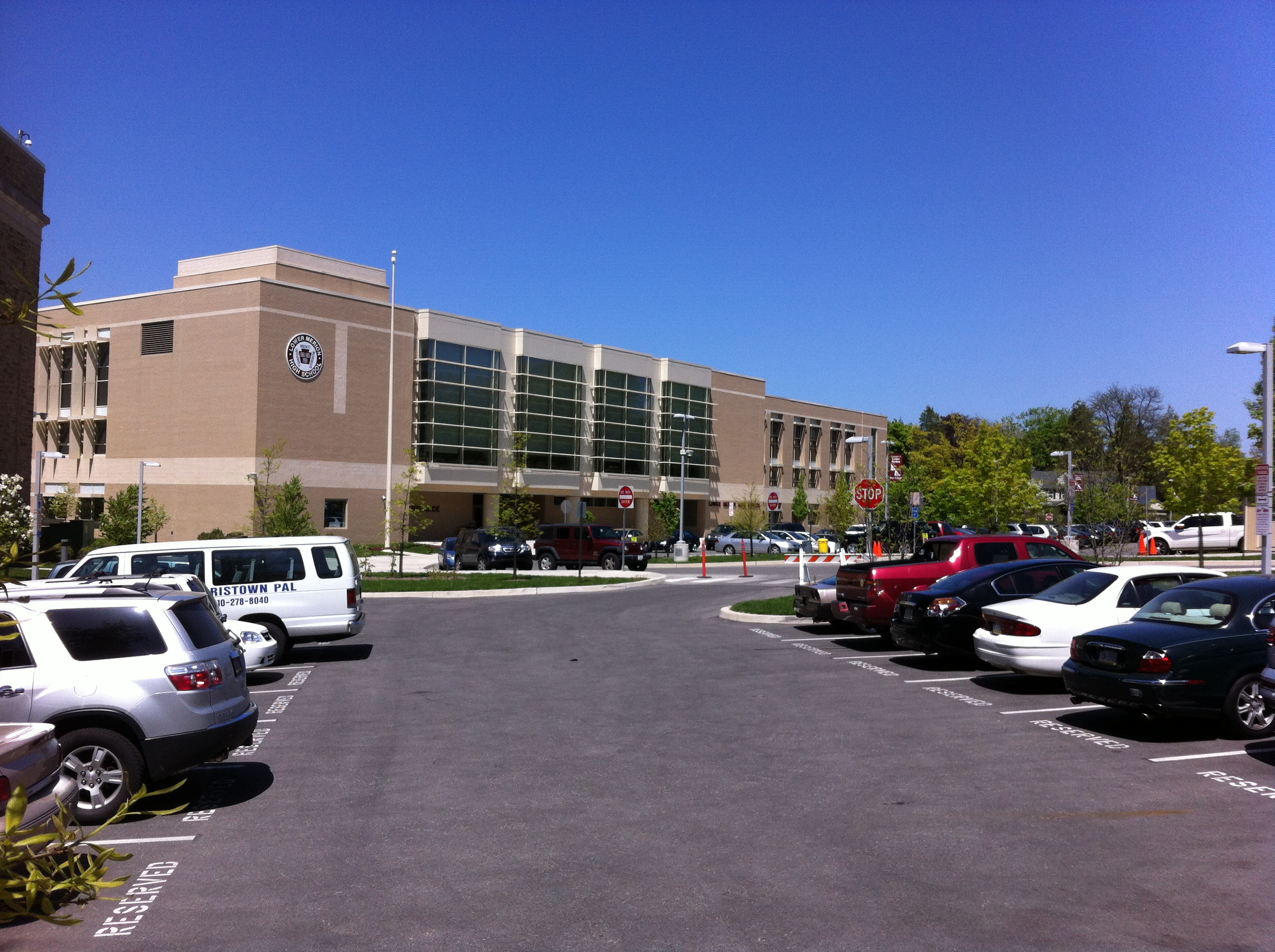 New Building at Lower Merion High School, Lower Merion, Pennsylvania.